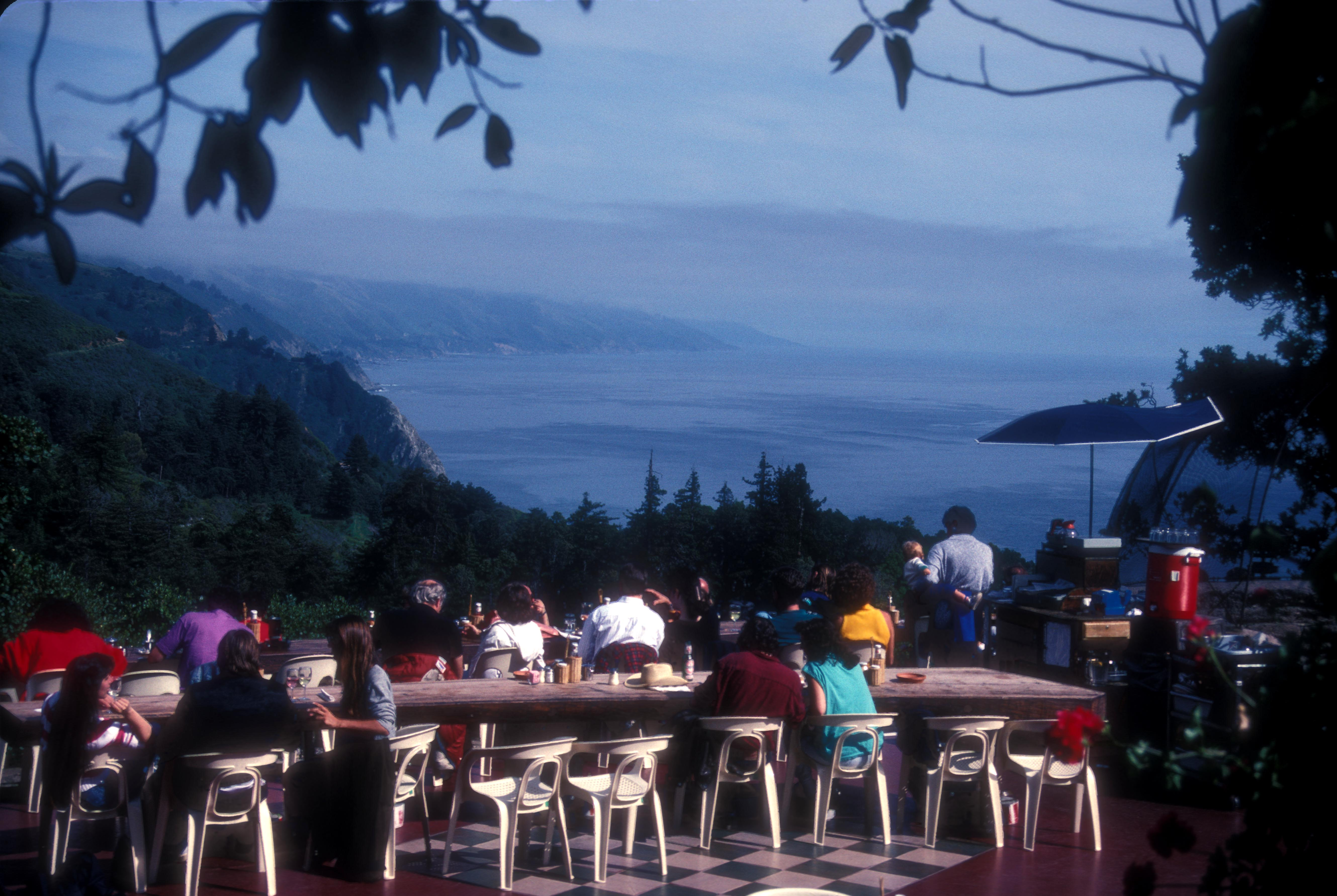 NEPENTHE - A RESTAURANT BUILT BY A FRANK LLOYD WRIGHT DISCIPLE ON THE SITE OF A CABIN OWNED BY ORSON WELLES AND HIS WIFE RITA HAYWORTH; NEPENTHE IS THE GREEK WORD FOR "SORROW BANISHER" AND WAS USED FOR A POTION THAT GAVE FORGETFULNESS OF PAIN. REDWOOD SCULPTURES DOMINATE THE RESTAURANT AND THE PHOENIX BIRD WAS DONE BY EDMUND KARA